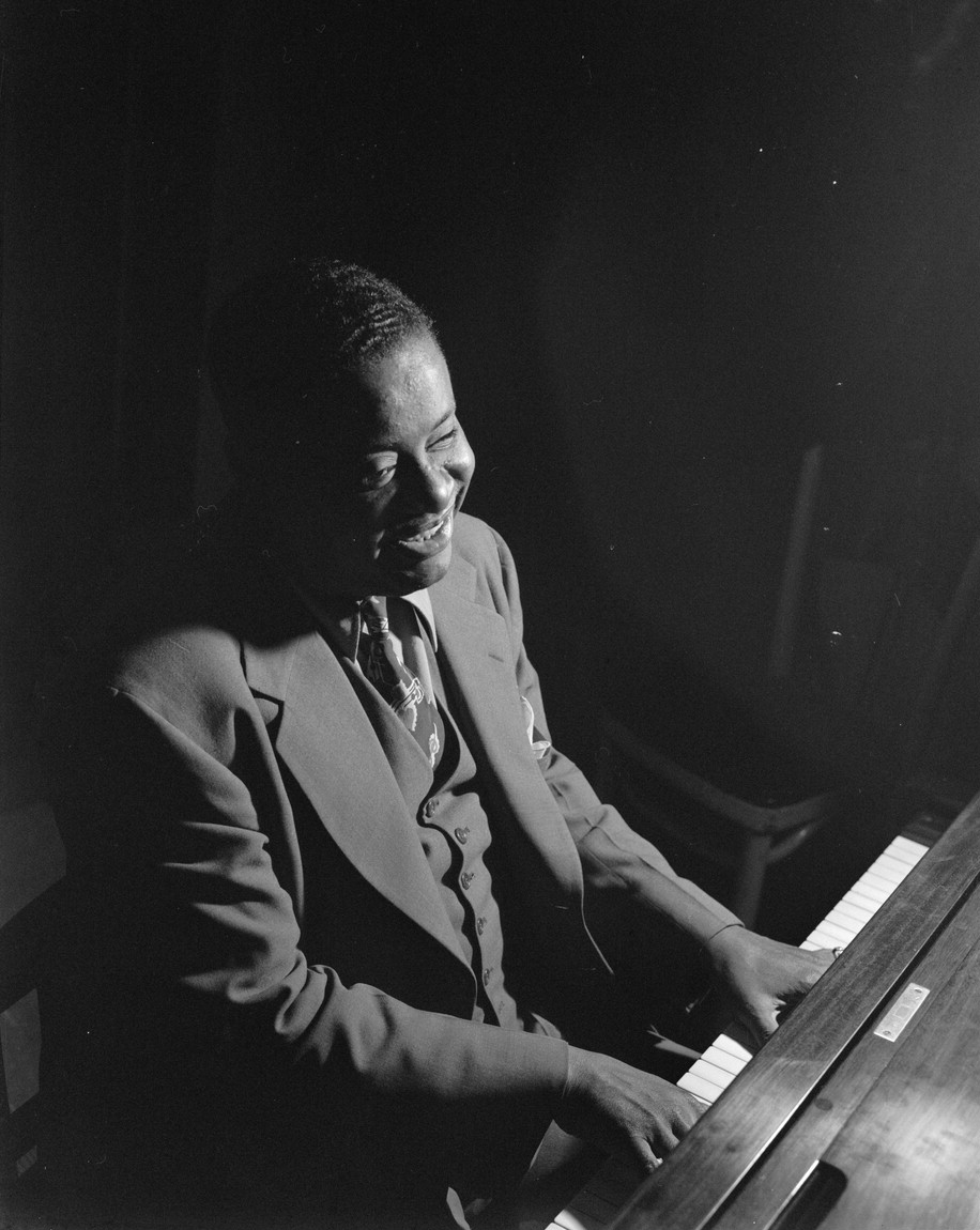 Portrait of Art Tatum, Rochester, N.Y.(?), ca. May 1946